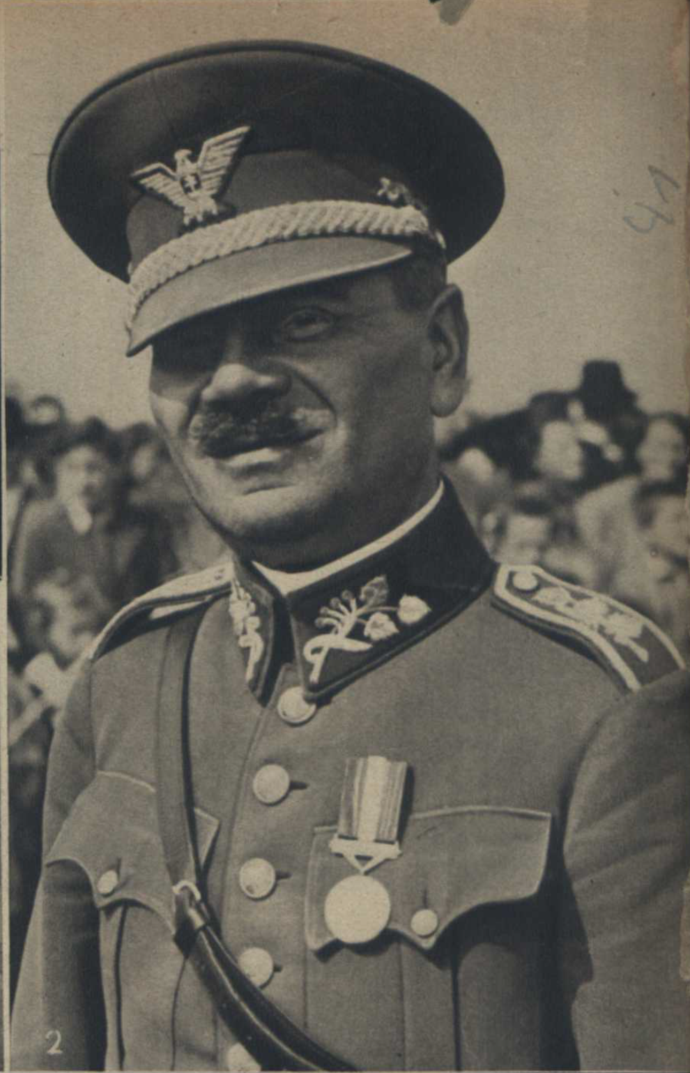 Anton Pulanich decorated for heroism on the Polish front